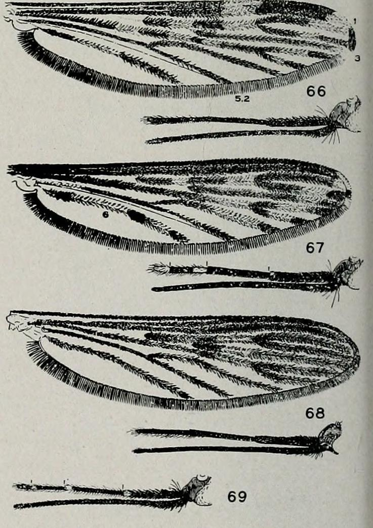 Anopheles mouth parts and wings: 66 Anopheles punctipennis 67 A. crusians 68 A. quadrimaculatus 69 A. walkeri mouthparts. Identifier: bulletin242519471952illi Title: Bulletin Year: 1918 (1910s) Authors: Illinois. Natural History Survey Division Subjects: Natural history Natural history Publisher: Urbana, State of Illinois, Dept. of Registration and Education, Natural History Survey Division